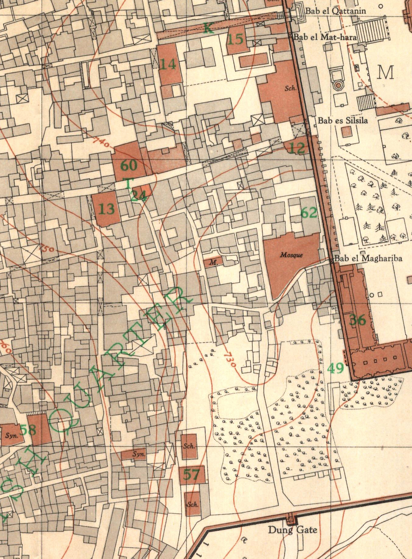 Survey of Palestine map 1:2,500